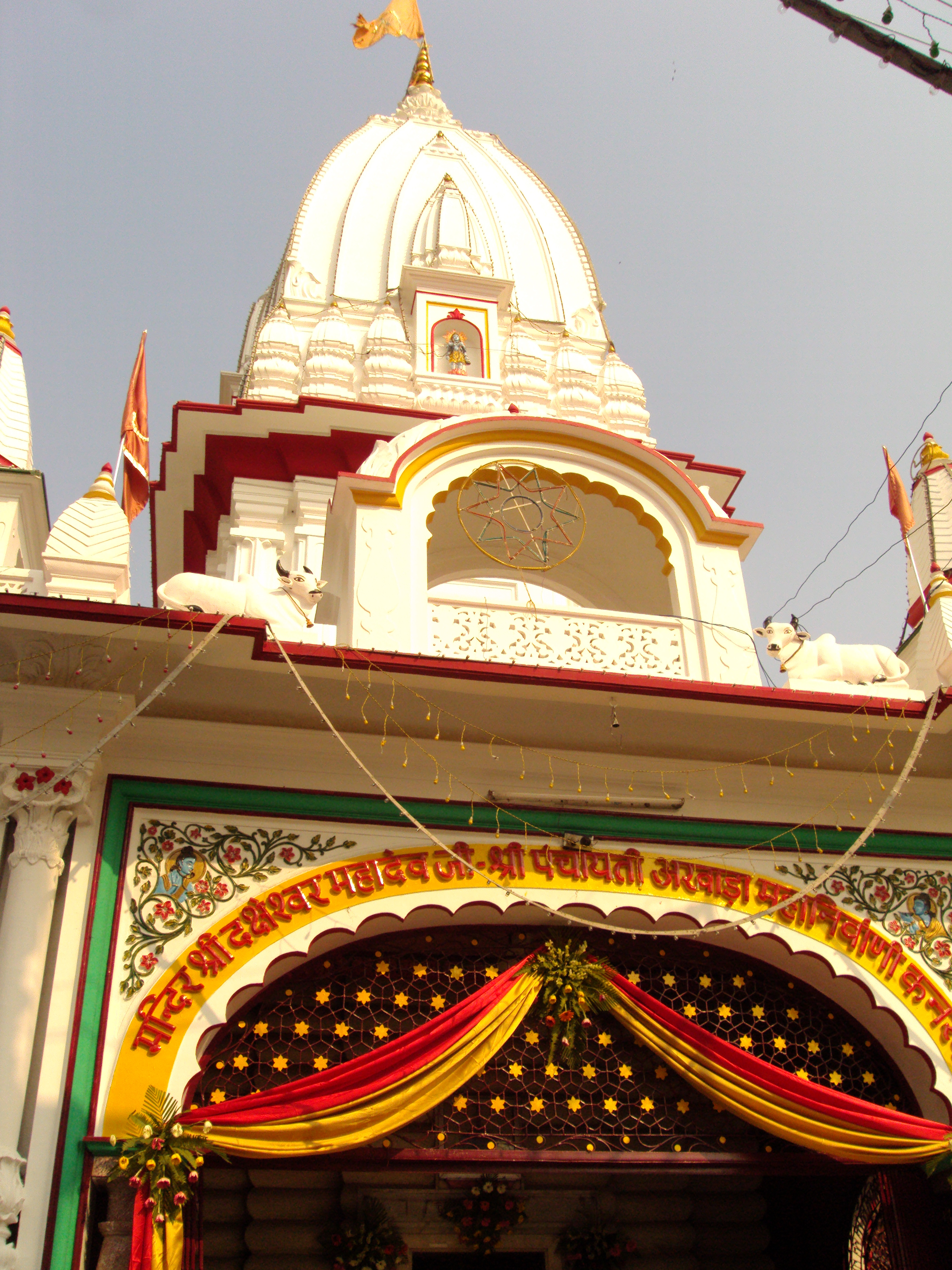 Daksheswara Mahadev temple